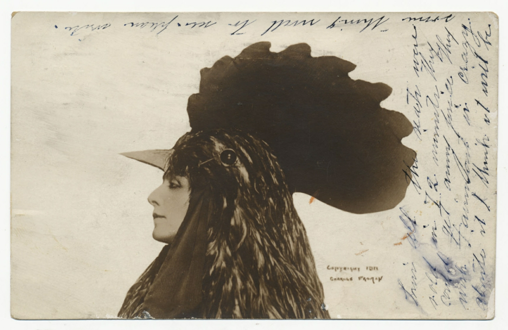 Real photo postcard Sent to Mr. Louis Jones in Vincennes, Indiana from Fairmont, West Virginia, February 12, 1912. "Dear Louis, I am still looking for that letter. Why don't you write to me? Have you forgot your W. Va bonnie? I am sending you the picture of Maude Adams in Chantecler. My friend and I are going to see her to night Feb 12. Louis all the seats were sold in 72 minutes. They could get any price they wish. Fairmont is crazy about it. I think it will be some thing swell to see. Please write."